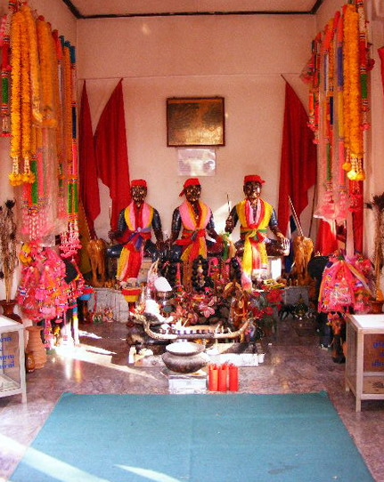 THE SHRINE OF BOR LEK NAM PHI GOD in Bo Lek Nam Phi (Bor Lek Nam Phi Folk Museum). Bo Lek Nam Phi, Ban Nam Phi, Nam Phi subdistrict, Amphoe Thong Saen Khan, Uttaradit Province, Thailand.